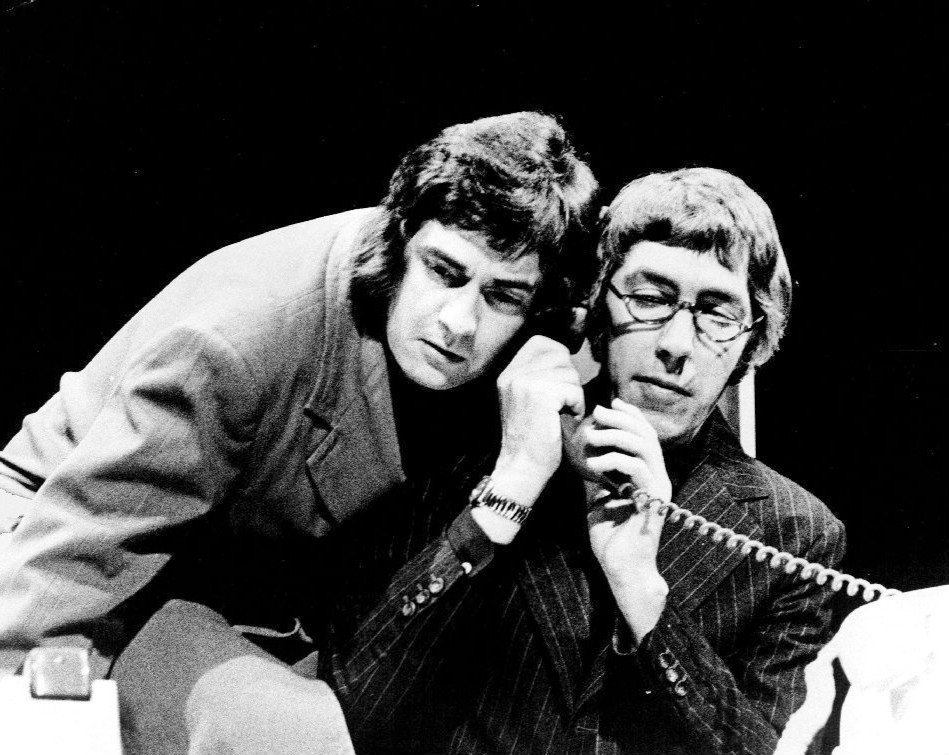 Dudley Moore (left) and Peter Cook in their revue Good Evening on Broadway.